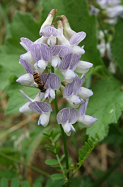 Wood Vetch (Vicia sylvatica) Until recently the distribution maps of this species suggested that it does not occur this far north, but it has always been plentiful on the shaded slopes at the foot of the cliffs here. I don't know what species the hoverfly is - can anyone tell me?